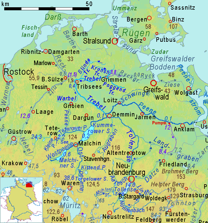 Peen and its affluents in a cut of a relief map of Mecklenburg-Western Pomerania:Brown figures = soil above sea level in meters (measure at the point, name above or below)dark blue figures = water level above sea level in metersdark blue arrows = direction of water flow,emphasized rivers drawn in stronger colours,lilac = water bodies crossing divides